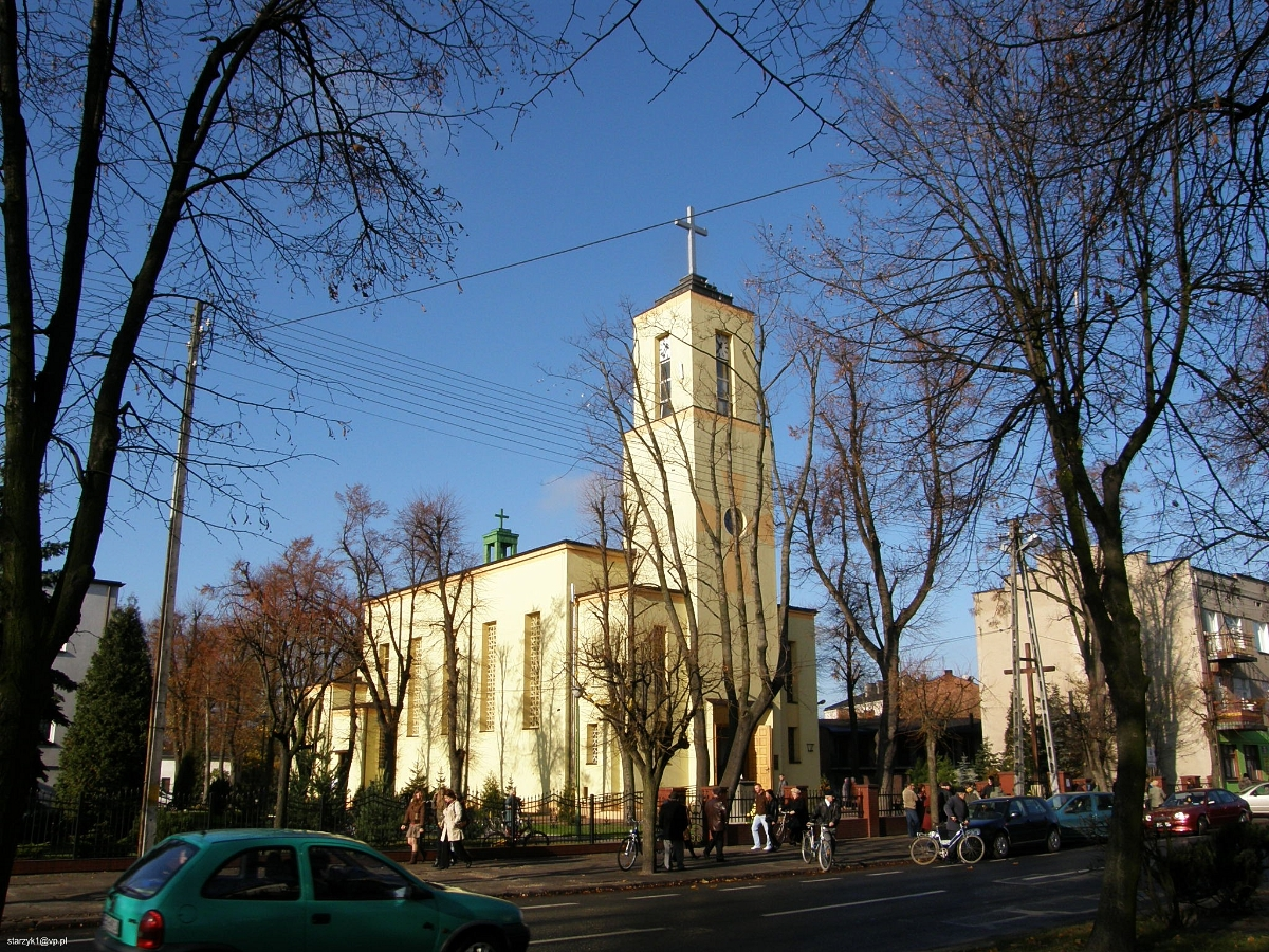 KK_W_ZELOWIE